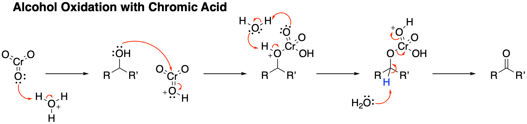 Curly arrows mechanism for Jones oxidation of secondary alcohols. The oxidation depends on the presence of the blue-colored hydrogen atom. Because the blue H-atom is absent in tertiary alcohols, they're inert towards oxidation. The primary alcohols oxidize to aldehydes, which later convert to hydrate forms, which undergo the second round of Jones Oxidation.